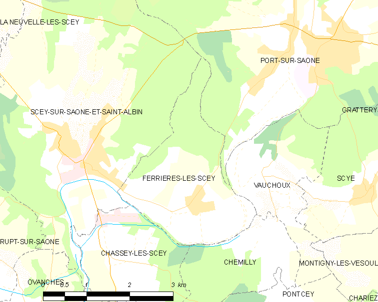 Map of French municipality